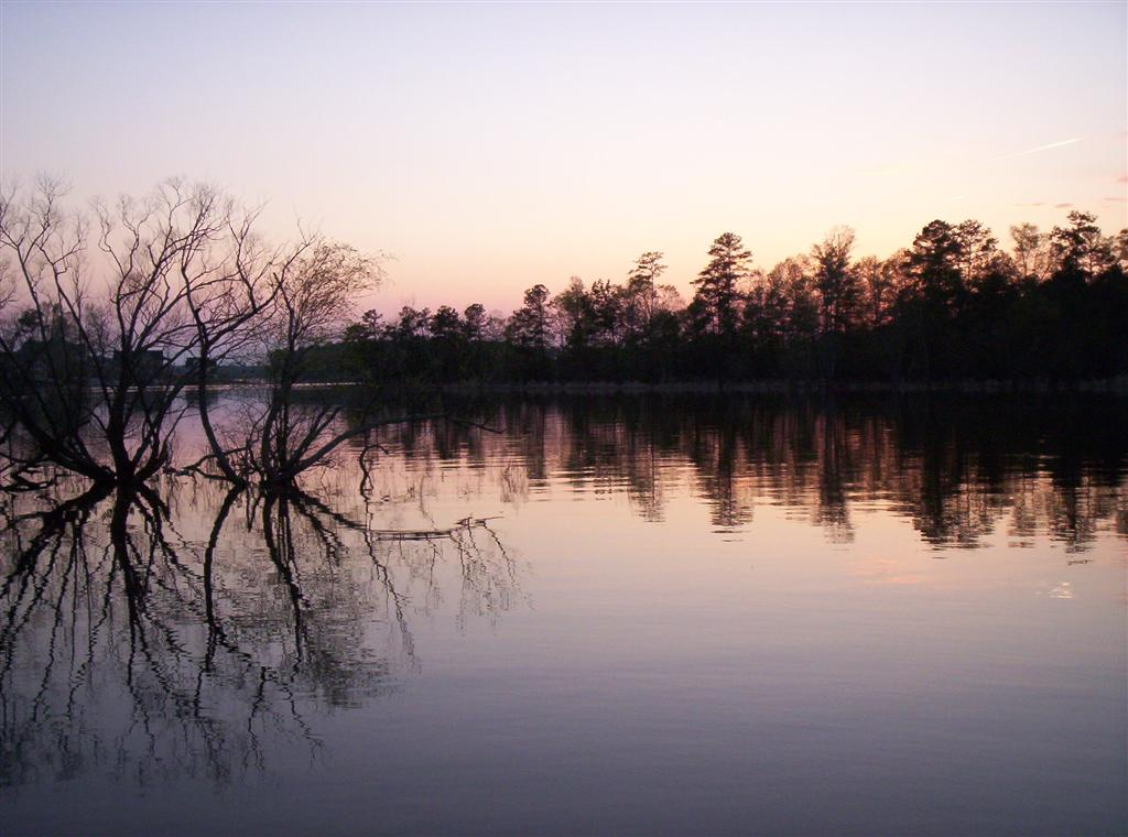 Photo of Lake Murray's western side.